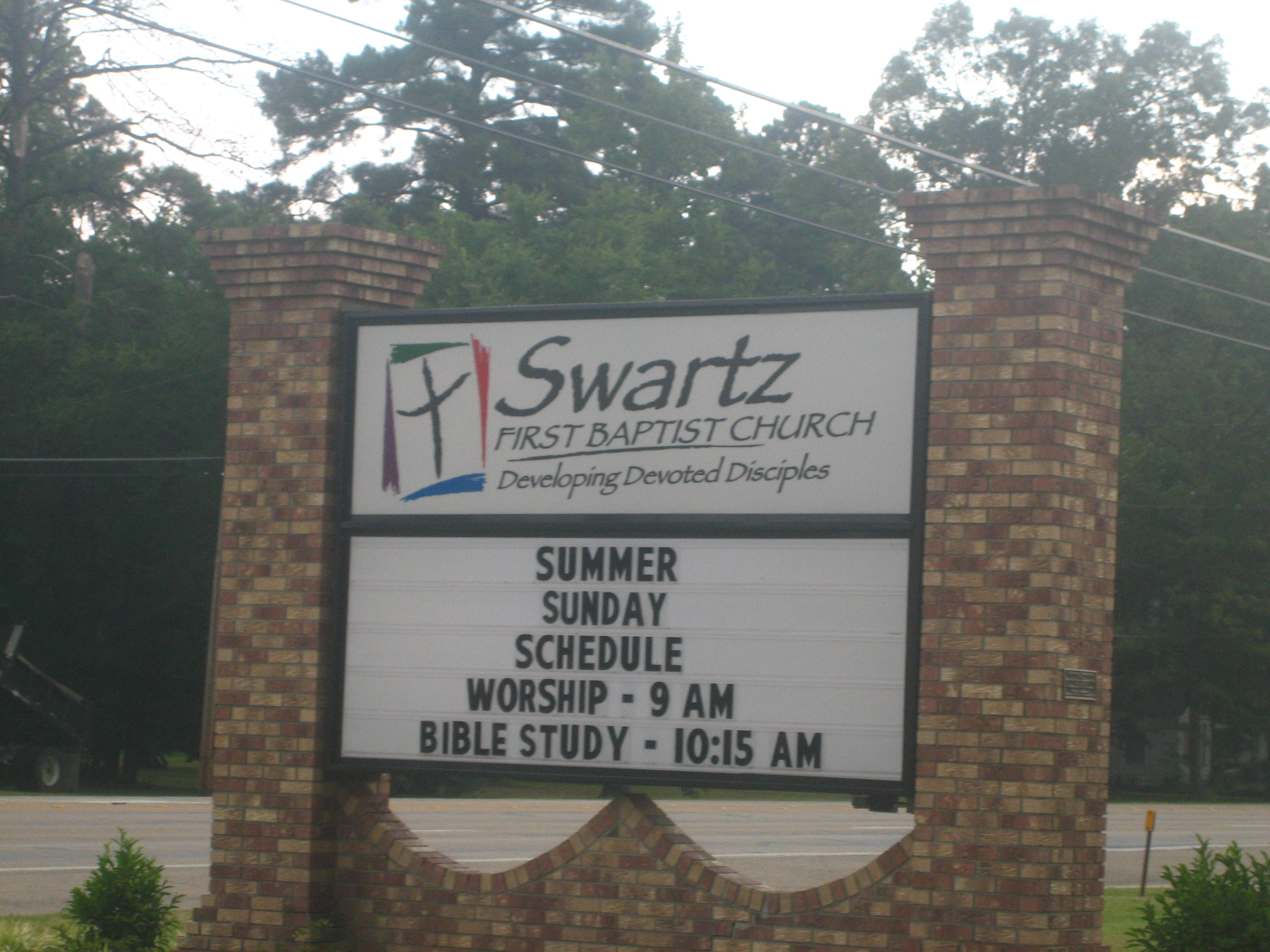 I took photo on Aug. 2, 2008.Billy Hathorn (talk) 00:40, 16 August 2008 (UTC)